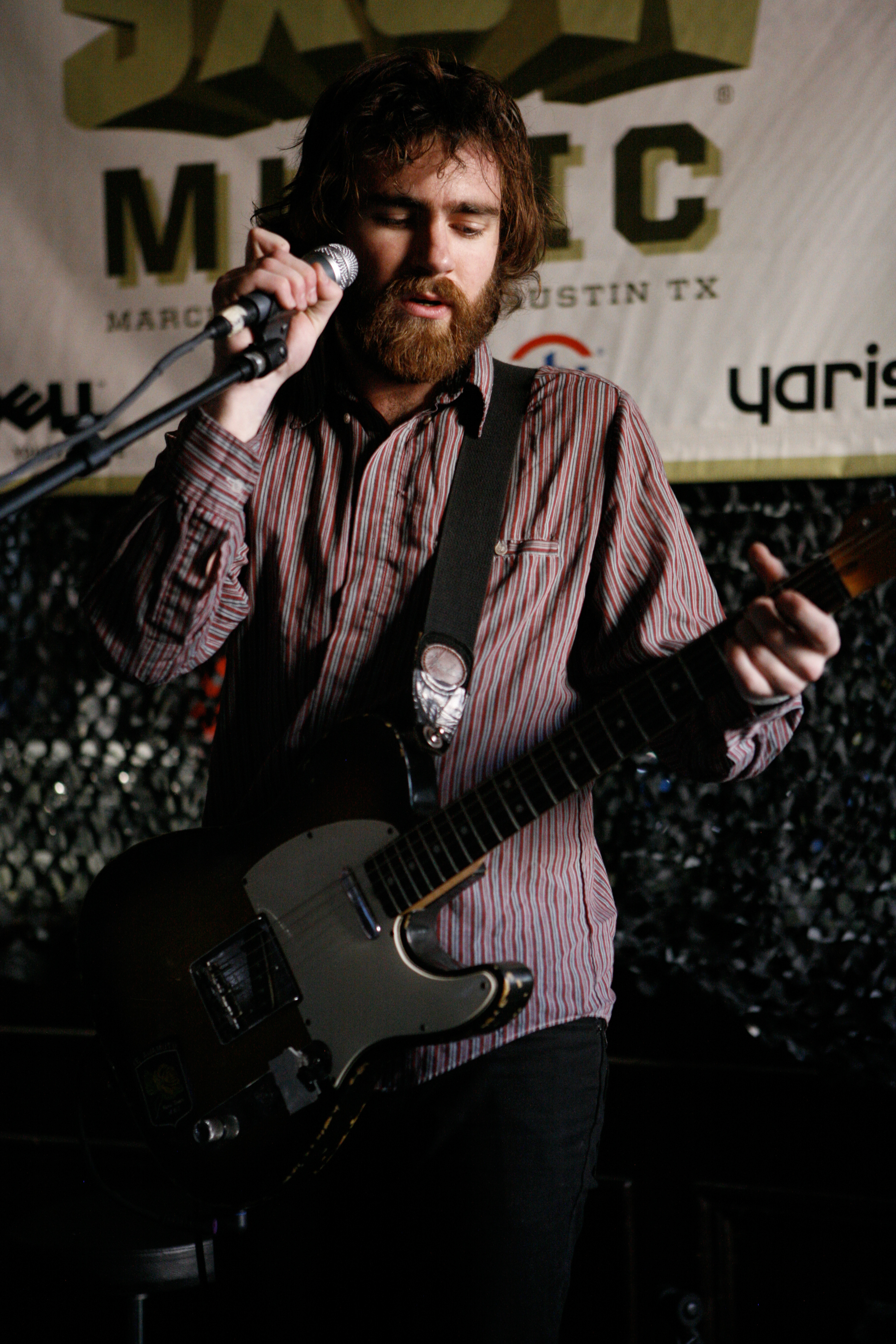 Liam Finn at South by Southwest in 2008. Photographed by Kris Krug